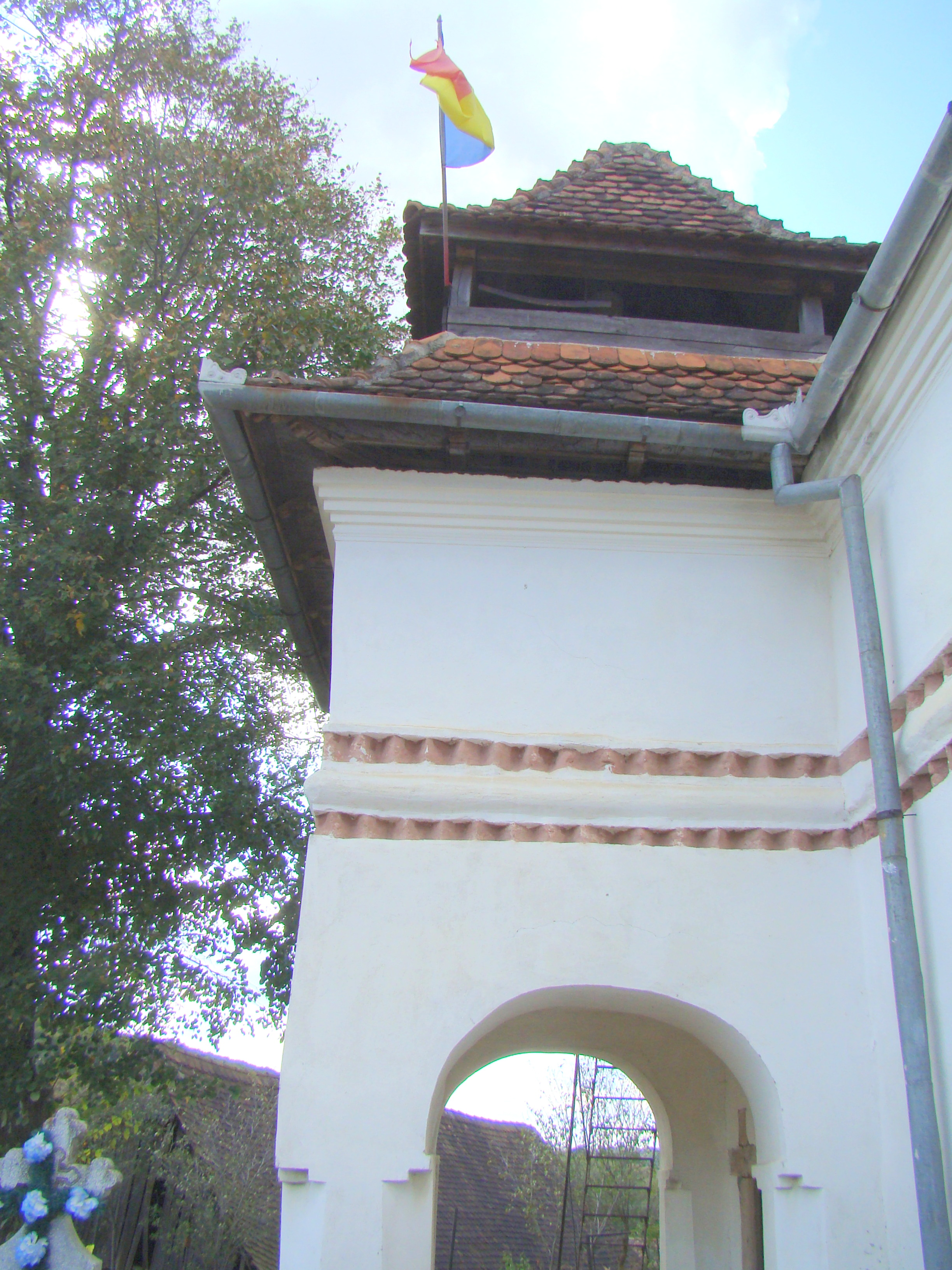 Archangels' church in Calbor, Brașov County, Romania